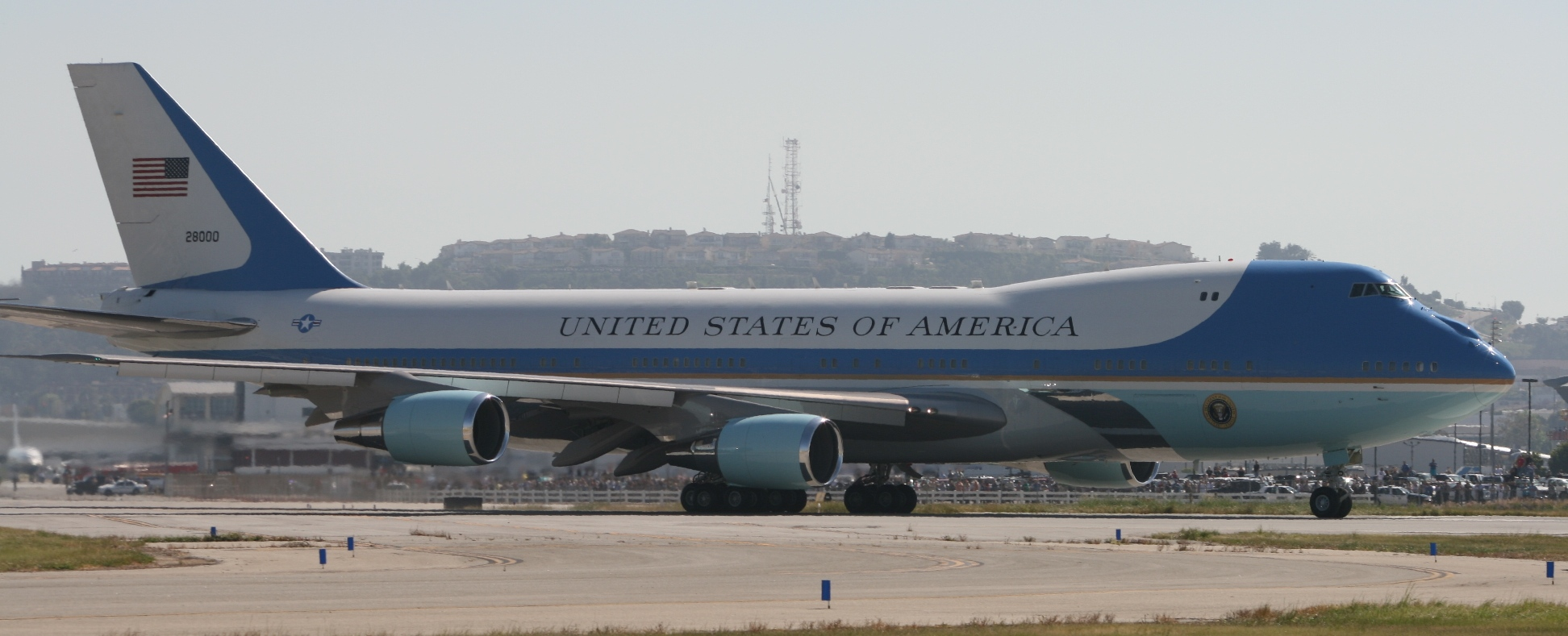 Take a close look in the background to see hordes of spectators. every inch of the fence was lined with people!